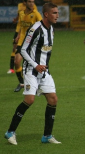 Liddle in action V AEK Athens